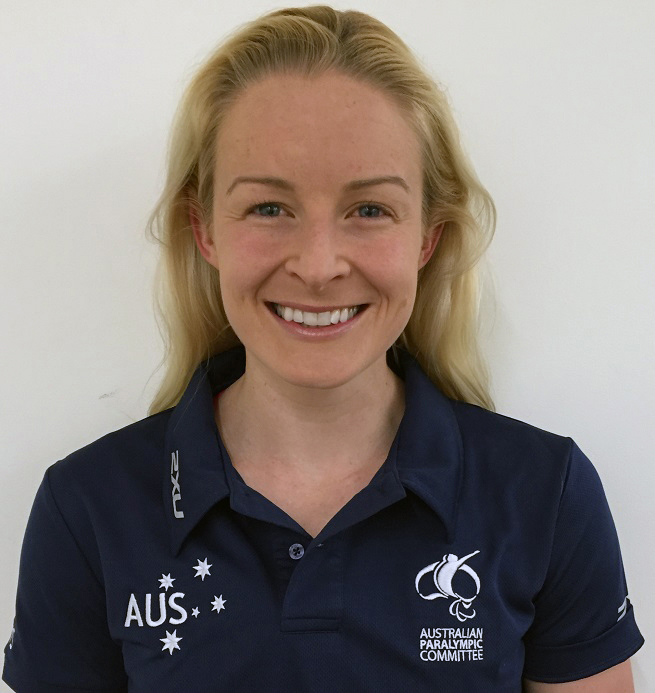 Portrait of 2016 Australian Paralympic Team member Jessica Gallagher